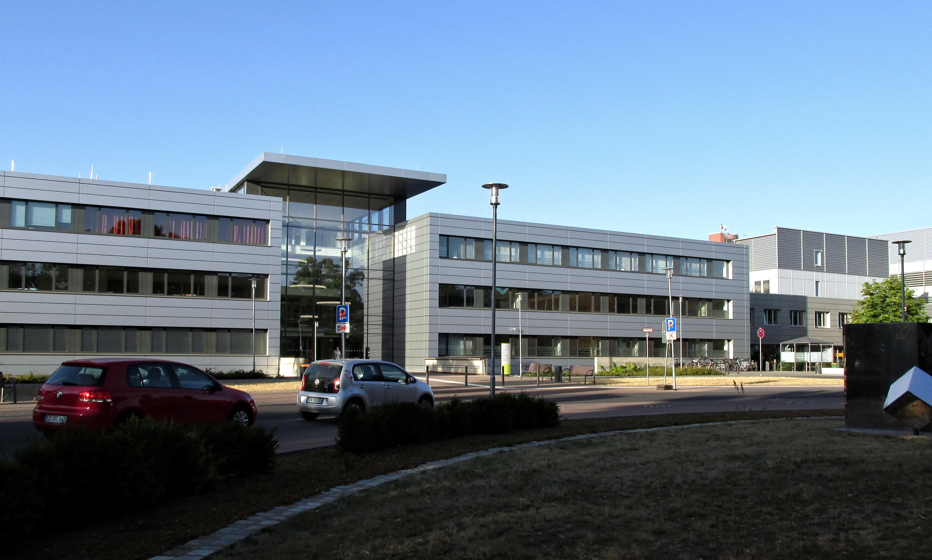 New main entrance of Carl-Thiem-Klinikum at Leipziger Straße in Cottbus-Spremberger Vorstadt.